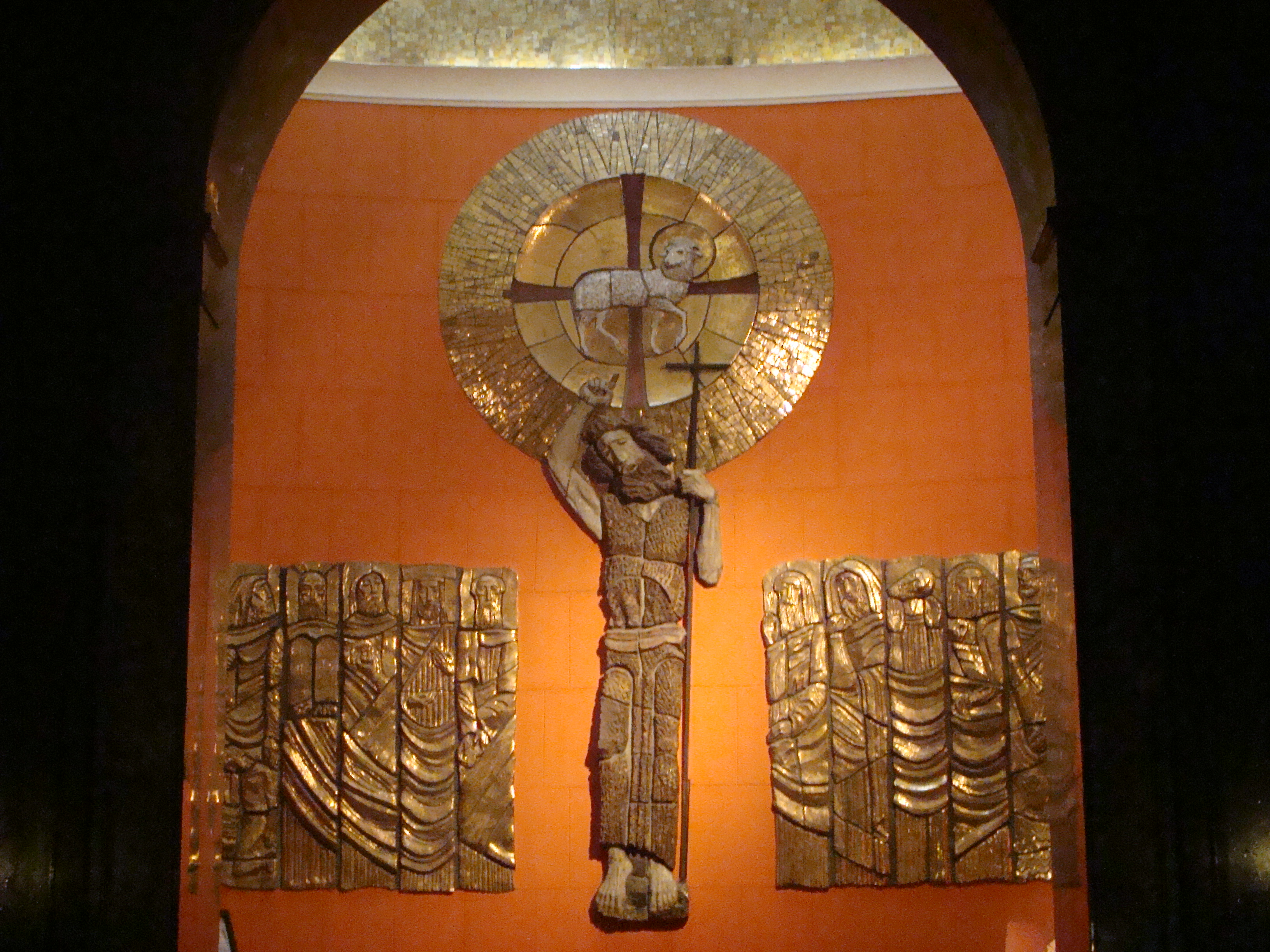 The Chapel of St. John the Baptist in Warsaw' s Cathedral